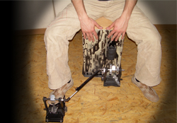 Traditional position and cajon pedal.